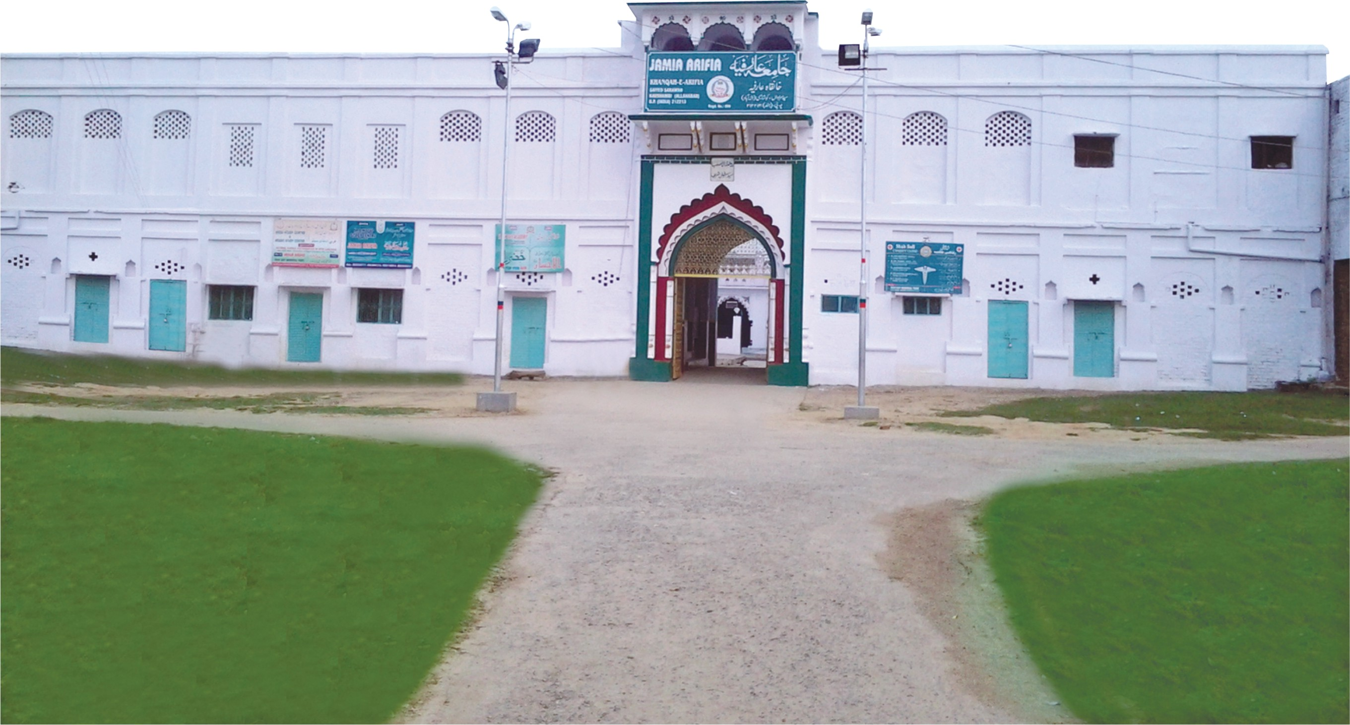 Jamia Arifia main gate